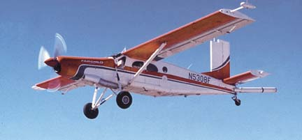 Pilatus PC-6/C-H2 Turbo Porter Original caption: In 1992, U.S. Geological Survey (USGS) scientists used this airplane, specially equipped with a magnetometer (white boom at rear of aircraft), to measure variations in the Earth's magnetic field in the Portland­Vancouver (Oregon/Washington) area. The USGS uses such aircraft to study geologic hazards, mineral resources, and environmental problems throughout the United States.